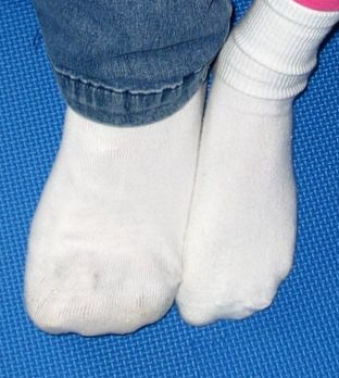 Feet in white socks compared